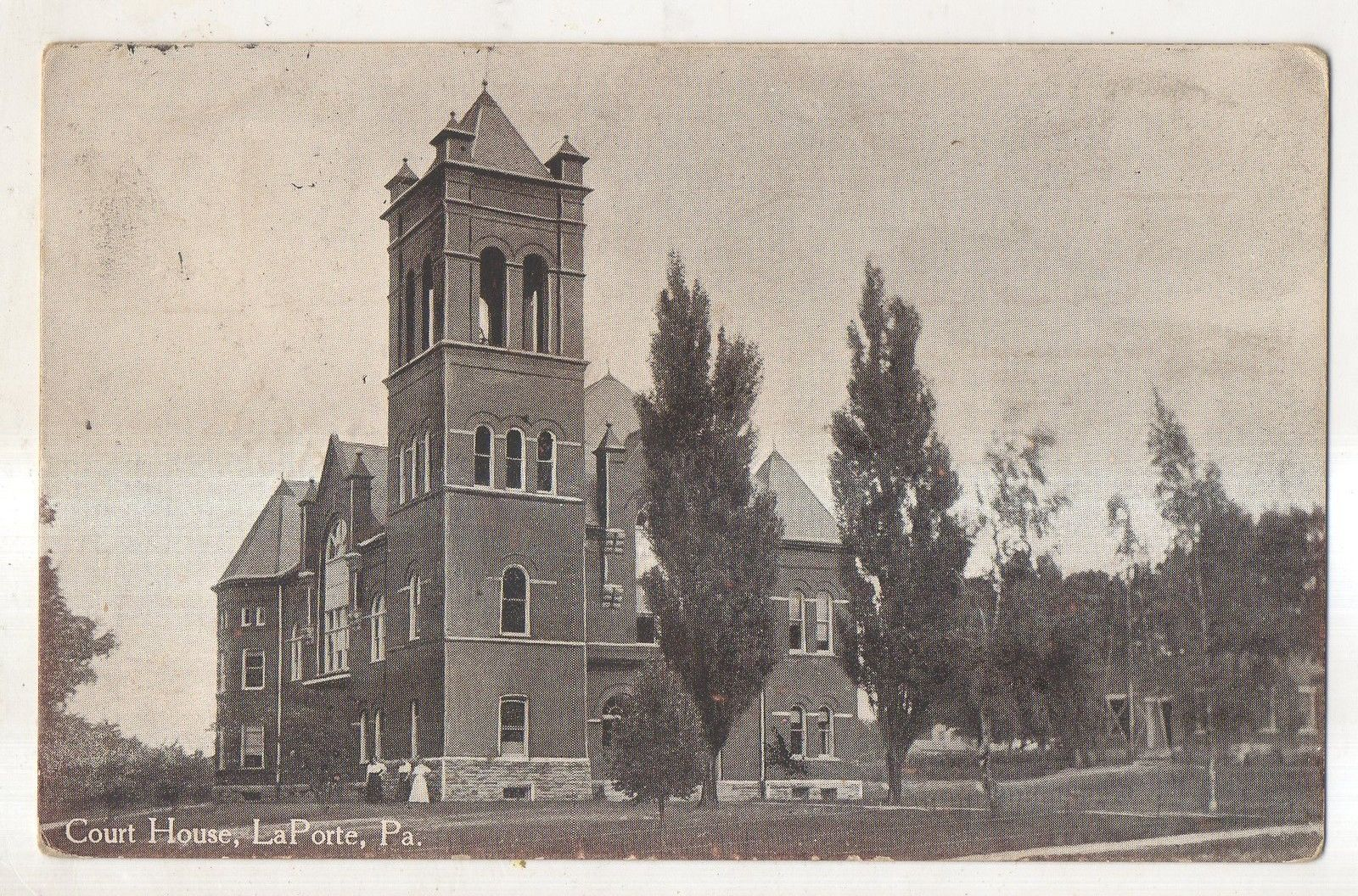 Sullivan County Courthouse on a postcard postmarked August 1, 1918. Also no copyright notice, as was typical of the time. The courthouse was listed on the NRHP in 1978 and is located at the corner of Main and Muncy Streets in LaPorte, Pennsylvania